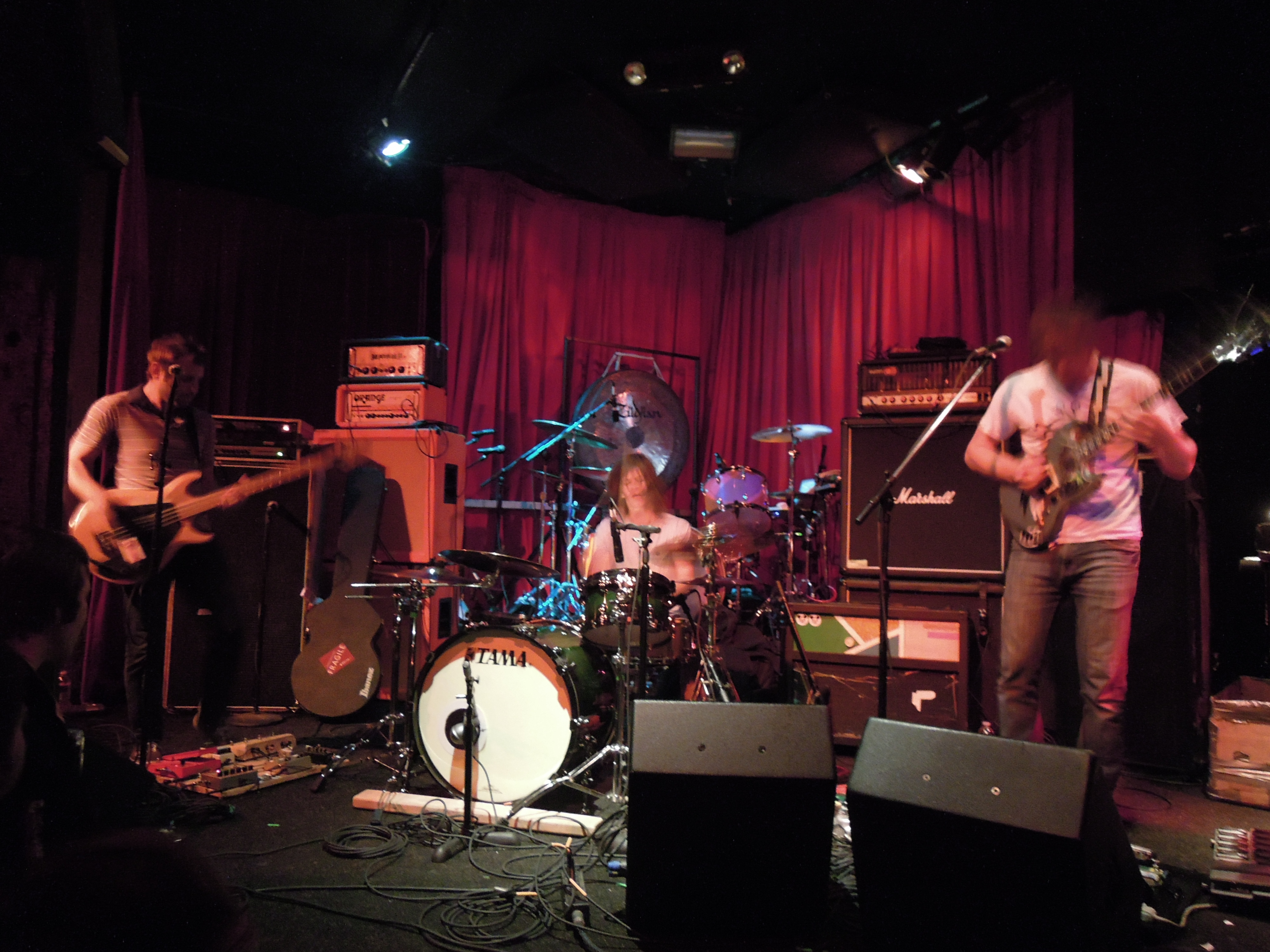 Live @ SLO BREWING COMPANY